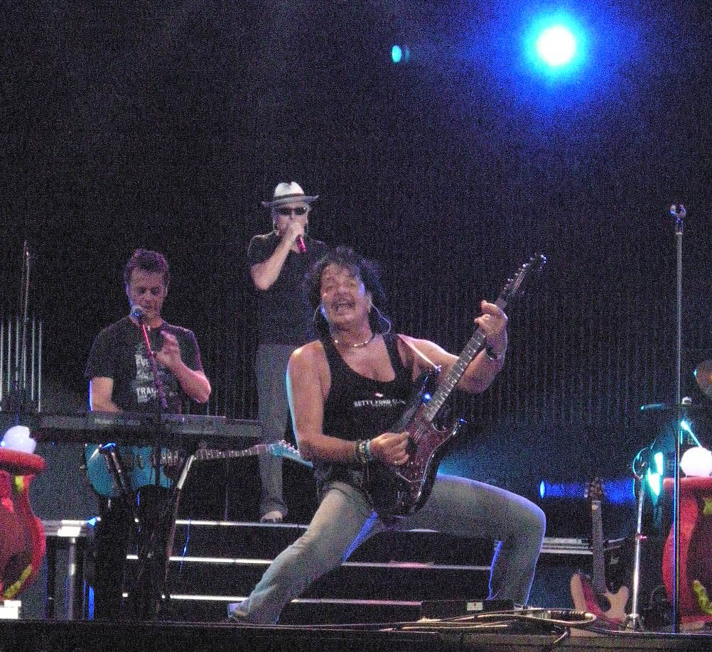 Erste Allgemeine Verunsicherung in Vienna, Austria, Donauinselfest 2008.